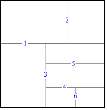 An example of sliceable floorplan